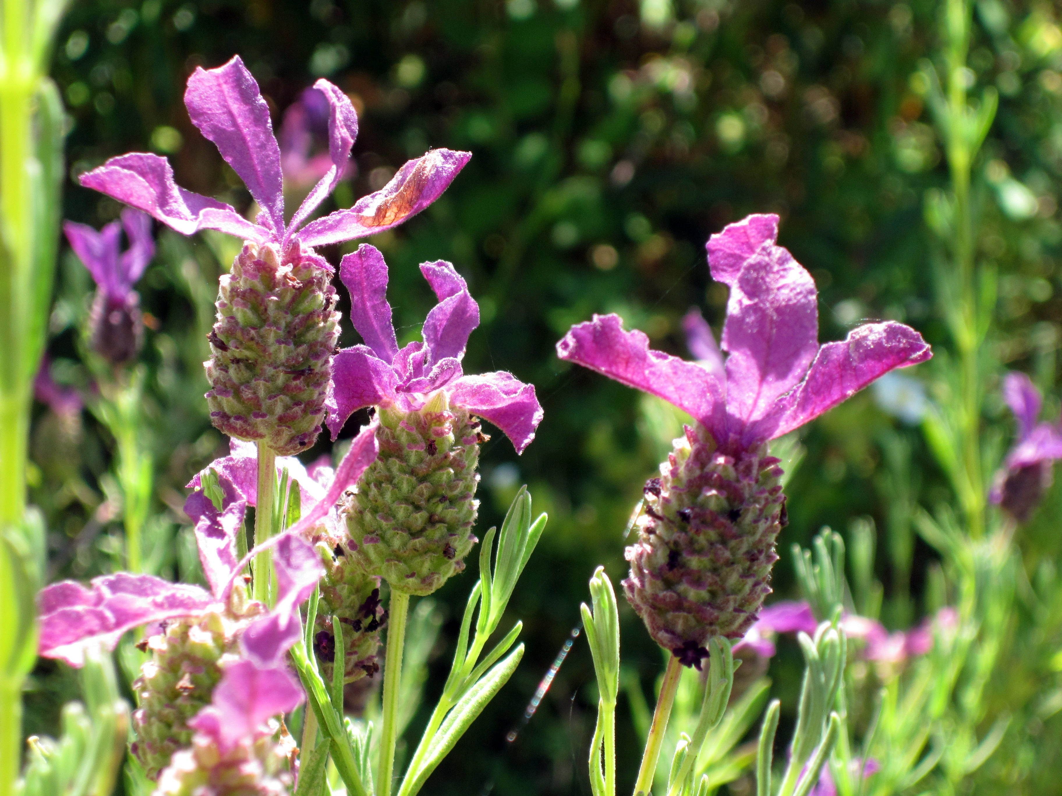 Lavandula stoechas (topped lavender, Spanish or French lavender) Corsica, France